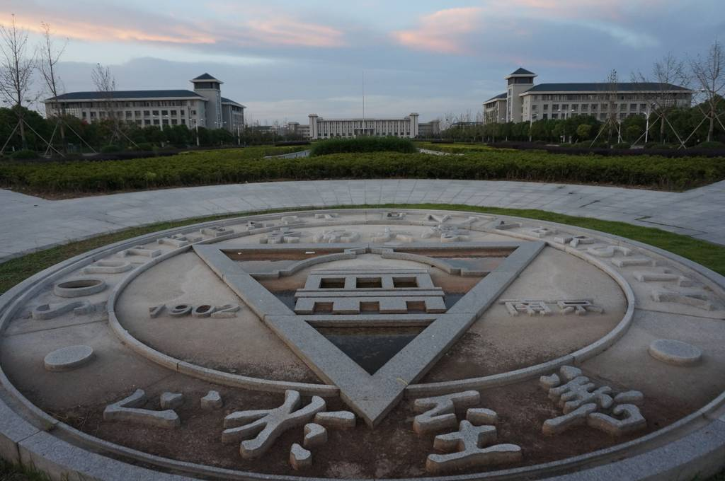 2013年10月2日——东南大学九龙湖校区校徽